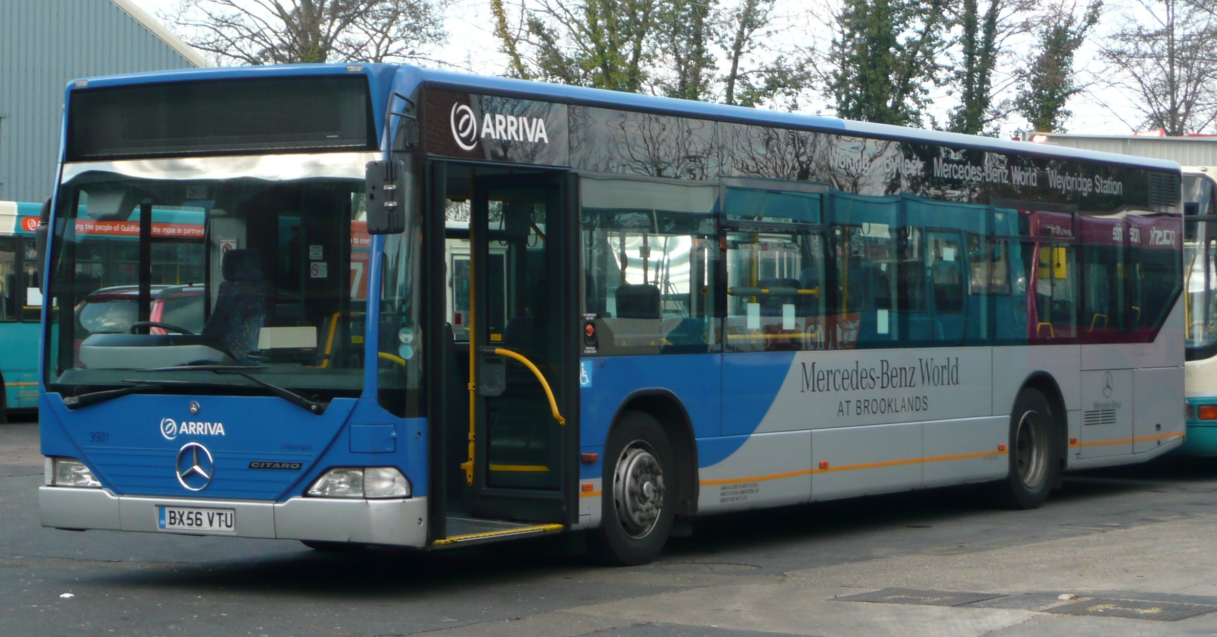 Arriva Guildford & West Surrey 3901 (BX56 VTU), a Mercedes-Benz Citaro, parked in the company's depot in Guildford.